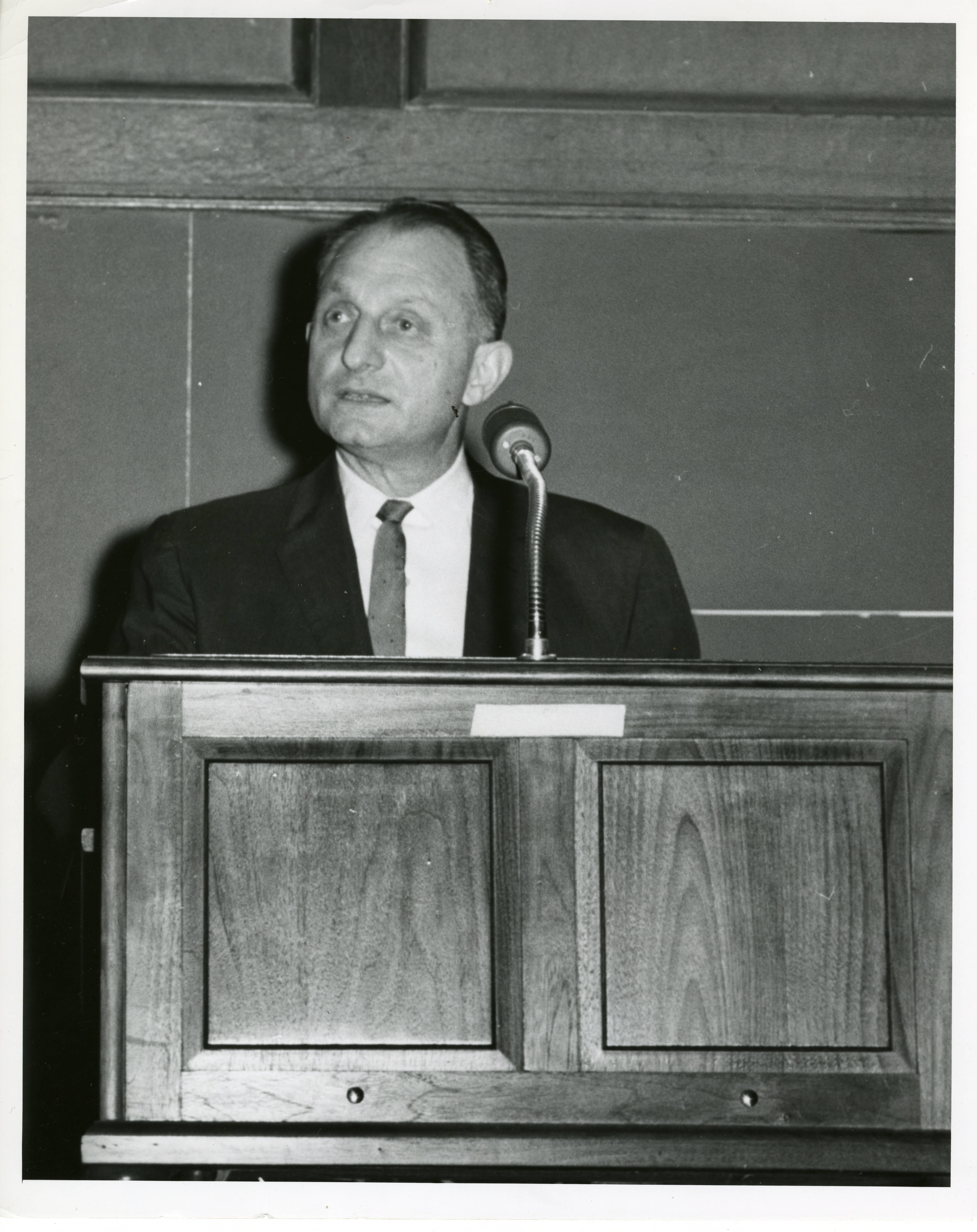 Samuel N. Alexander, Chief of the NBS Information Technology Division, speaking to 300 computer technologists about SEAC’s formation during the SEAC retirement ceremony.